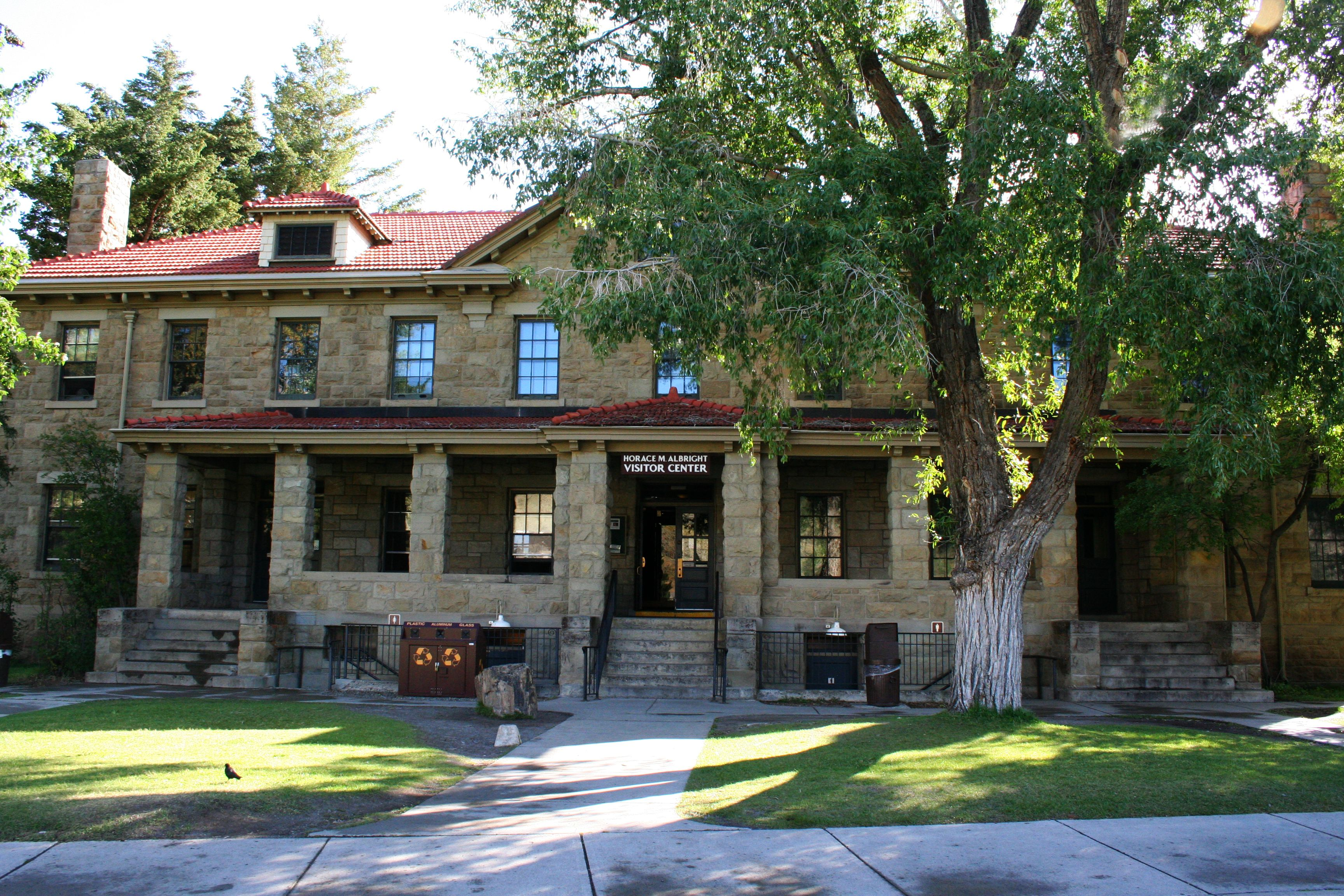 Visitor Center and Museum in Fort Yellowstone building